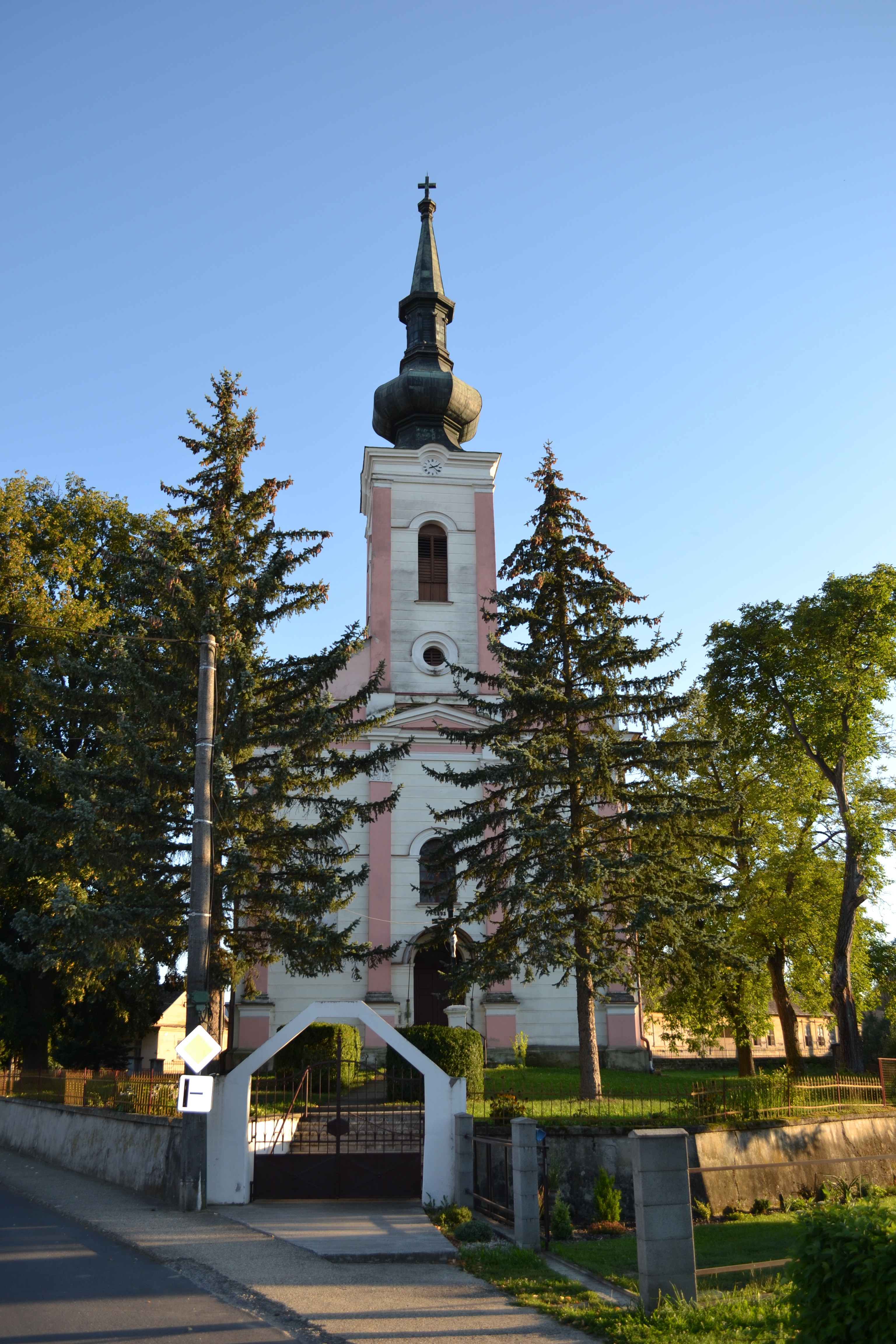 Church of the Assumption in Hrnčianske Zalužany